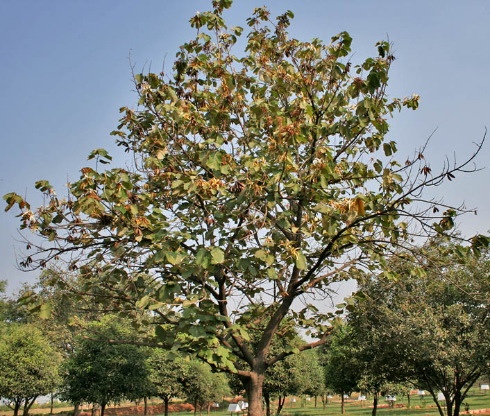 Pterospermum acerifolium - Kanak Champa, Moochukund, Bayur tree, Dinner Plate Tree, Karnikar Tree or Maple-Leafed Bayur Tree near Hyderabad, India.